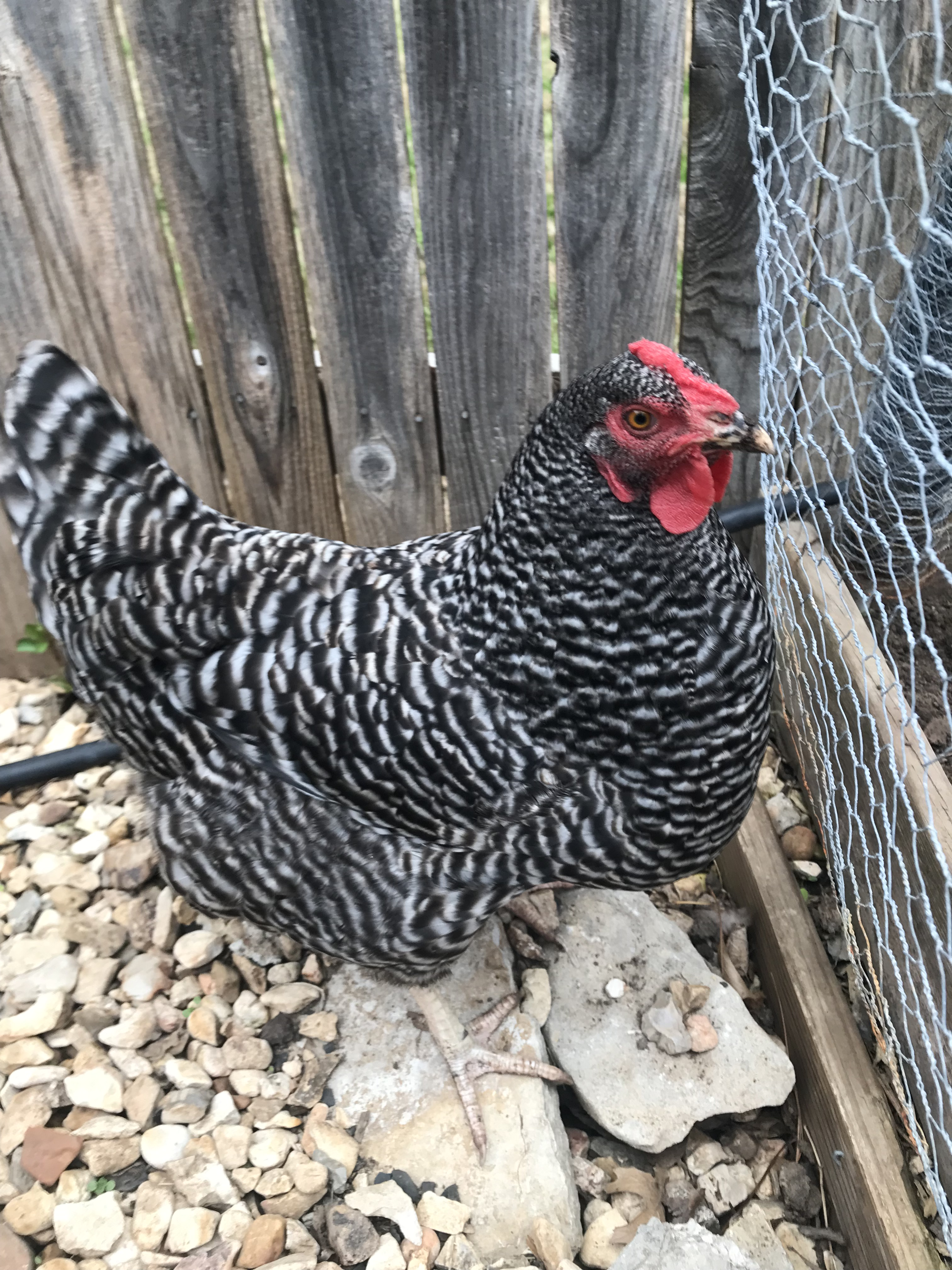 a Plymouth Rock hen